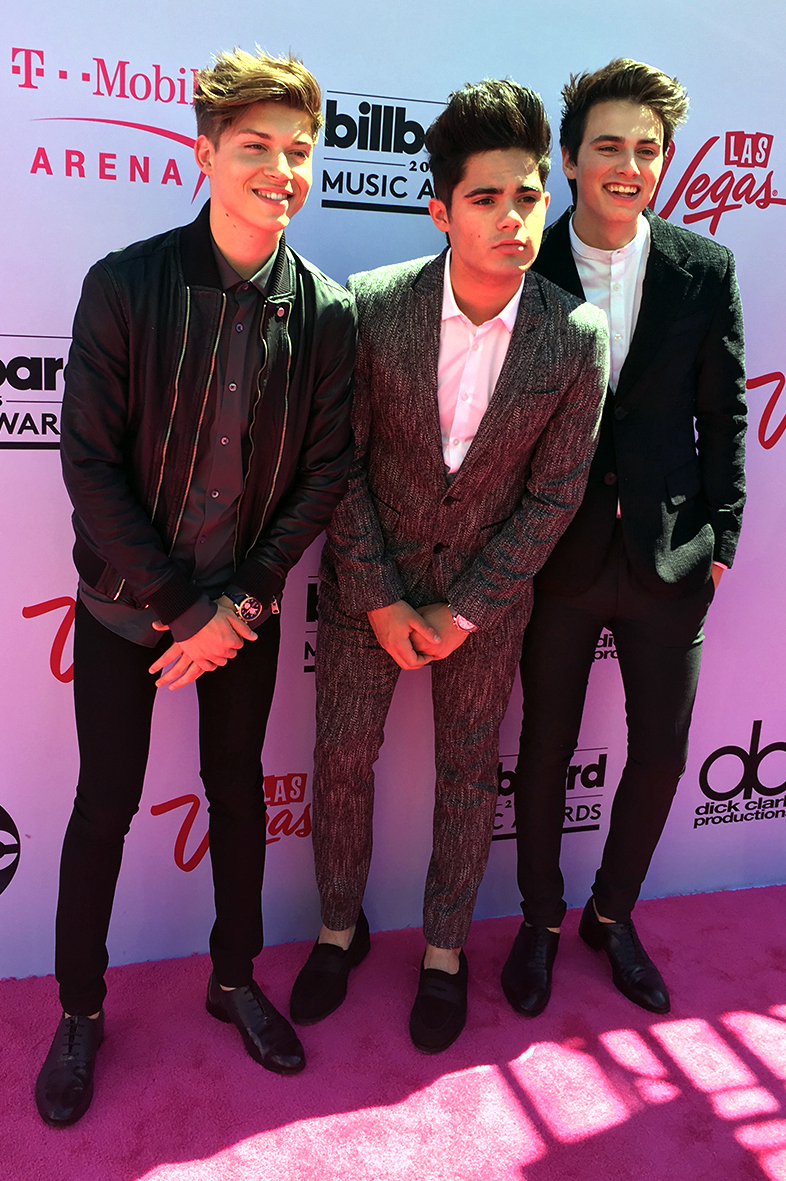 A 2016 photo of American boy band Forever In Your Mind.